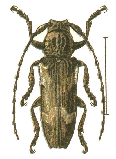 Illustration of monographs Georgiy Jacobson "Beetles Russia and Western Europe". Publisher: Devriena company. The first issue was released in 1905, the last - in 1915. Illustrations were mostly taken from the publication CG Calwers Kaeferbuch. Part of illustrations drawn O. Somina